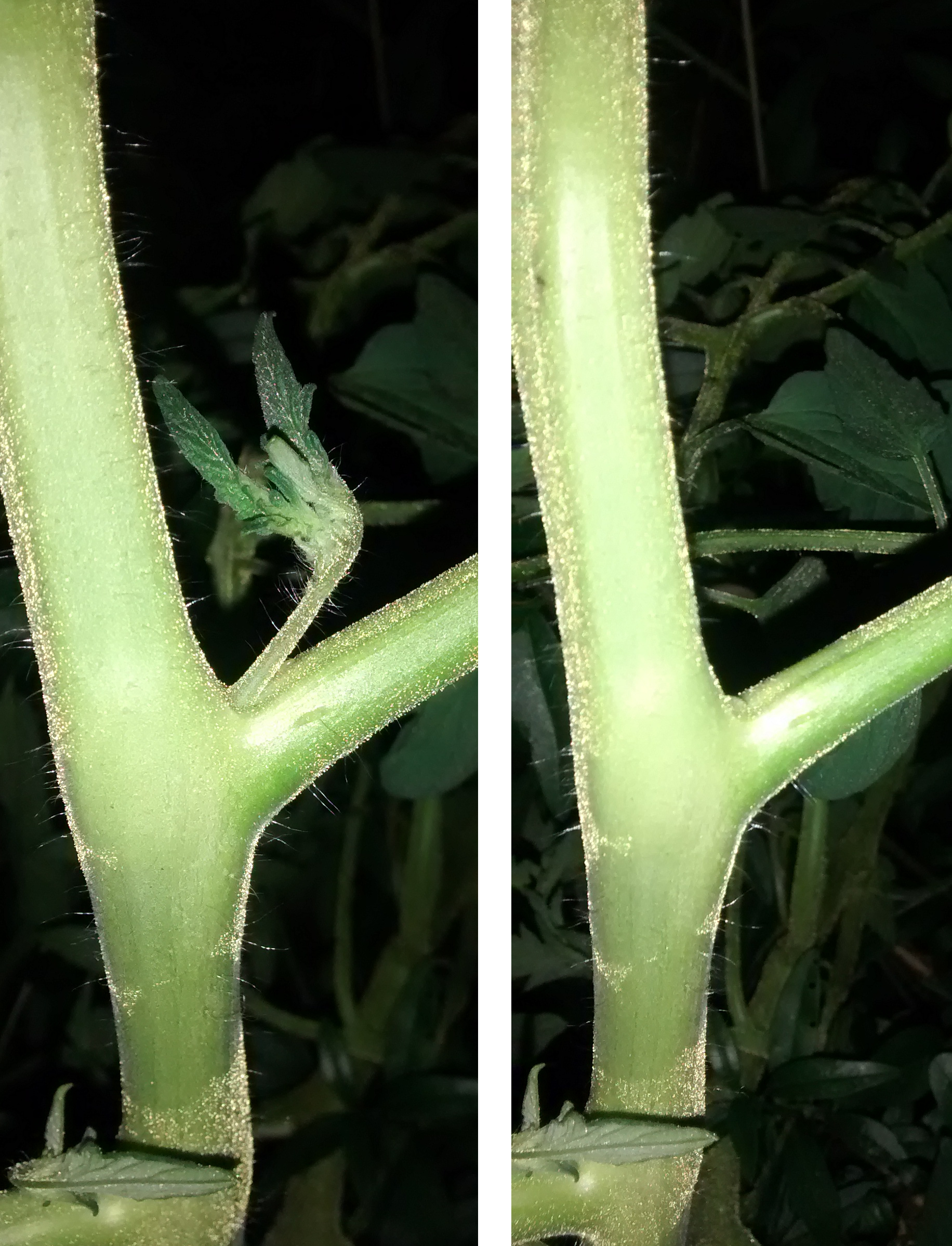 Epicormic shoots removal on tomato plants